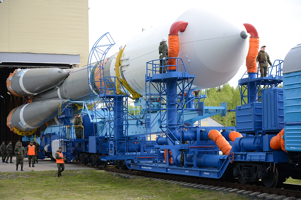 Soyuz-2.1b.